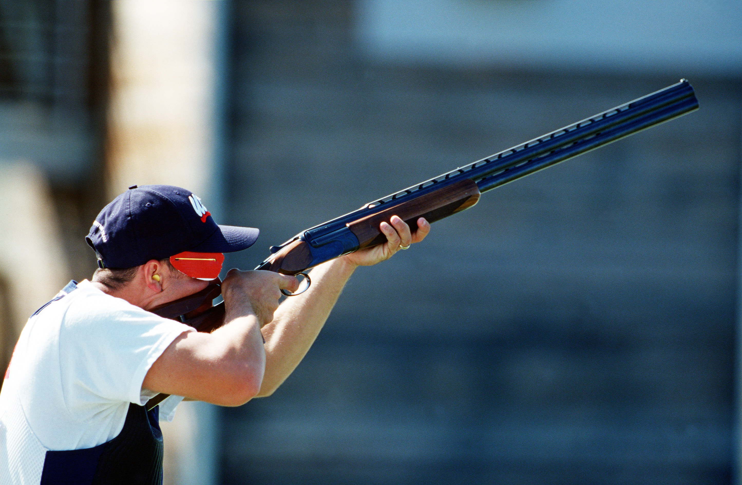 Right side profile, medium shot of William H. Keever as he takes aim down range on Wednesday, September 20th, 2000 in the Men's Double Trap at the Sydney 2000 Olympics. SPC Keever, who finished 12th, is a member of the US Army Marksmanship Unit at Fort Benning, Georgia.